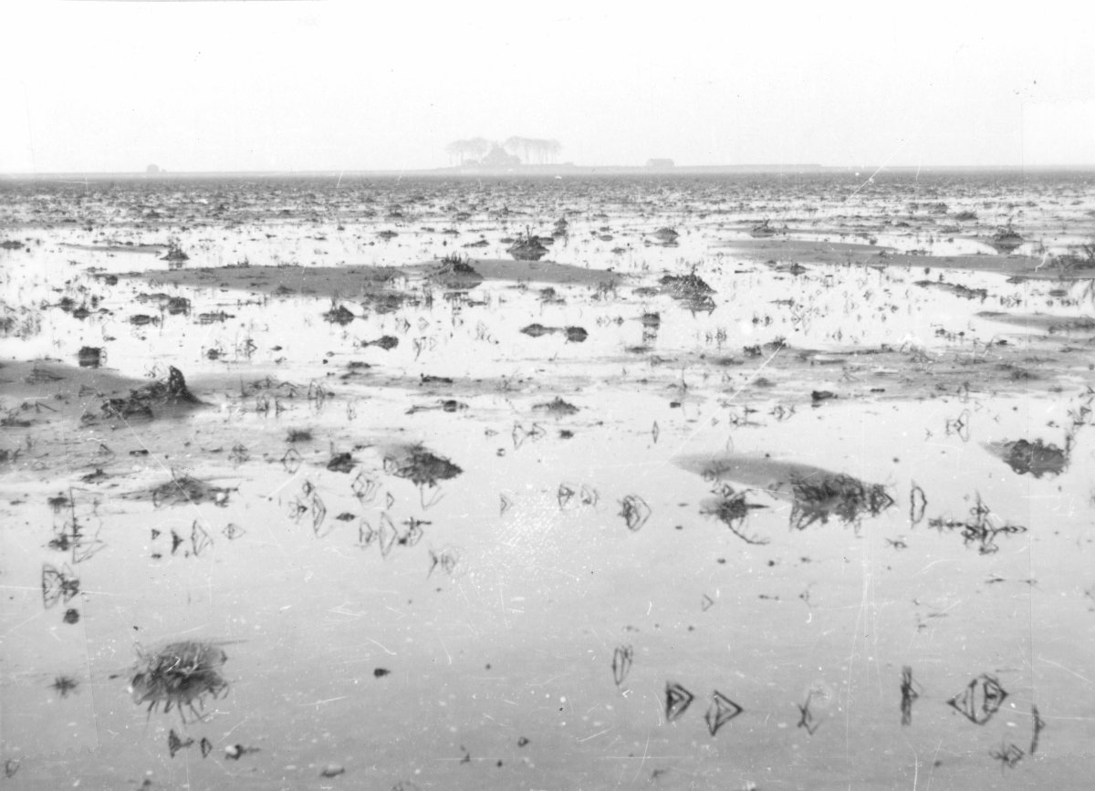 Noordoostpolder: Schokland. Toestand in het pas drooggevallen land na regen. Op de achtergrond Schokland.